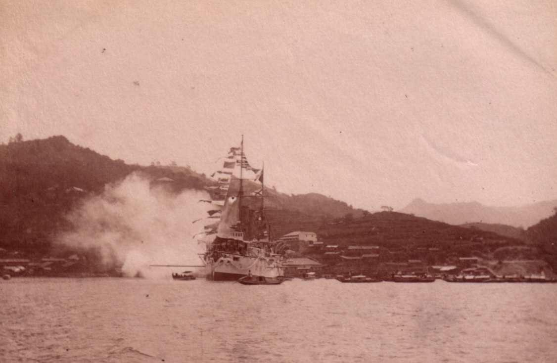 British armored cruiser firing a salute in Nagasaki harbor in Japan in honor of Queen Victorias 81st birthday